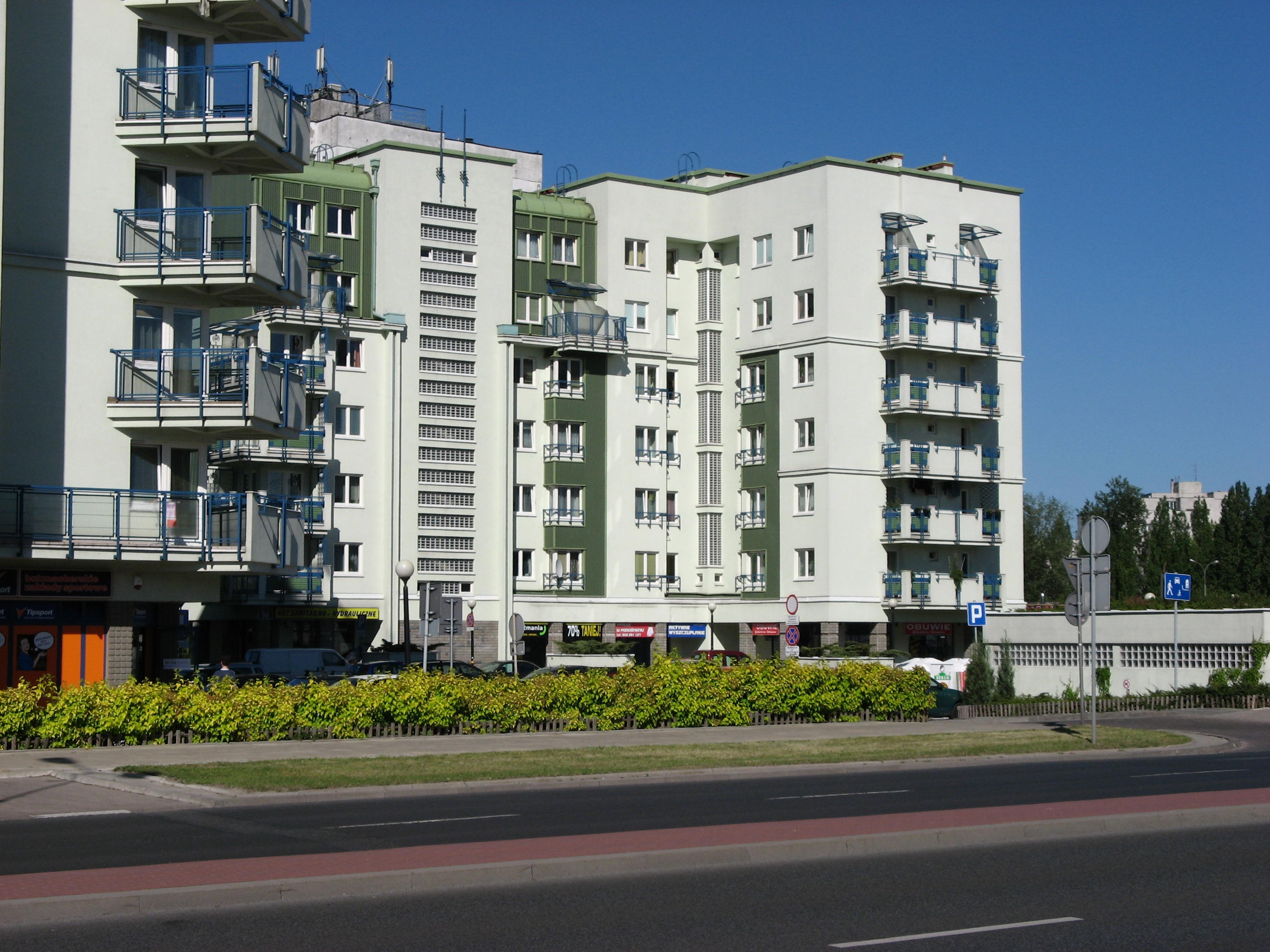 A view of some modern residential buildings in Aleja Komisji Edukacji Narodowej, the street that forms the backbone of Warsaw's district of Ursynów